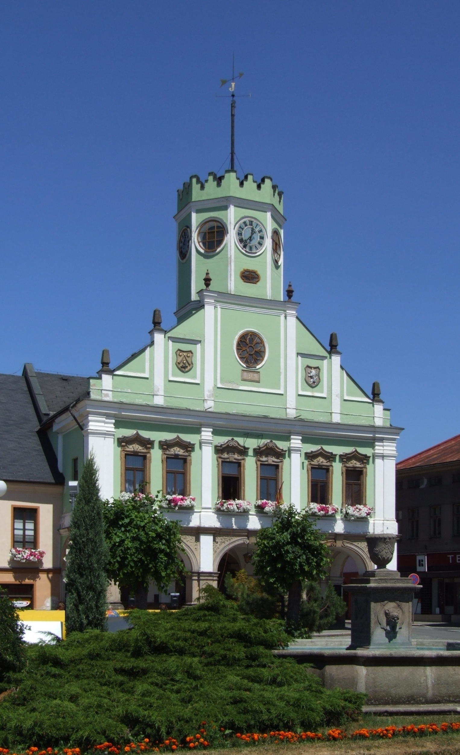 Police nad Metují (Politz an der Mettau) - town hall